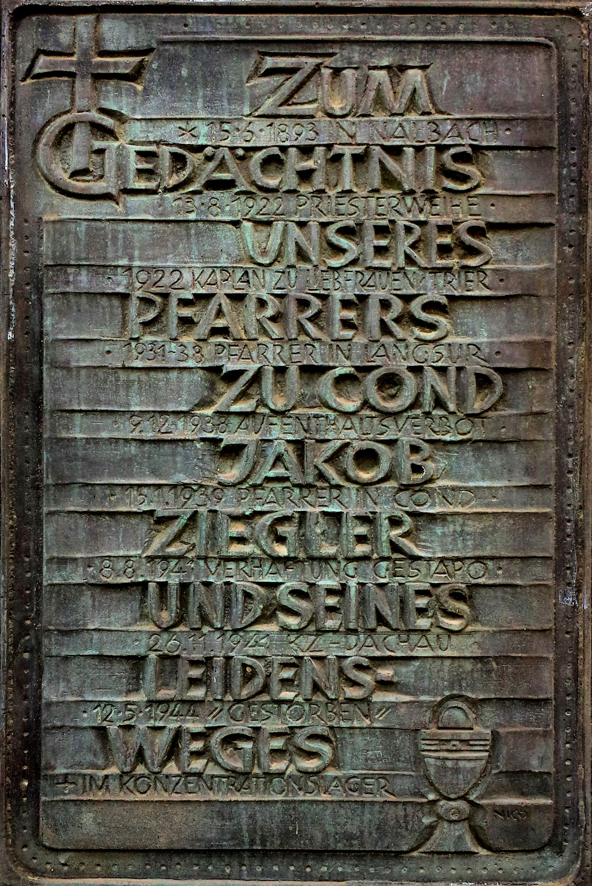 Memorial Plaque